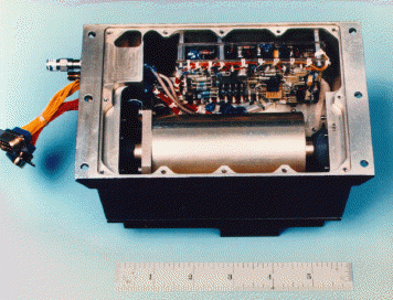 The Radio Science Investigations on Mars Global Surveyor (martian spacecraft)